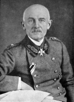 Portrait of Ernst von Hoeppner the Commander of the German Air Service during World War I